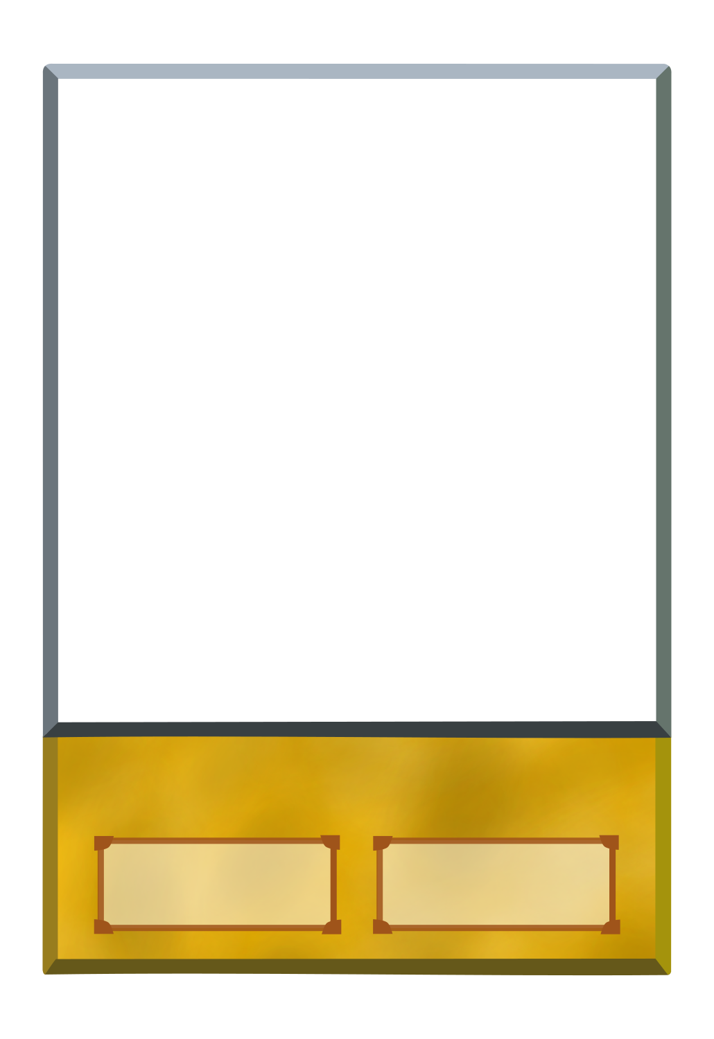 Instruction on how to create your own Anime style Effect Monster: Open this file In any Vector / Image manipulation program you want (it should have support for different Layers) e.G Inkscape or even Libreoffice Writer. Download or create your own artwork (if you want to publish it you shouldn't use any copyrighted images). Place the artwork behind the card so that it fills out the empty rectangle. Crop any edges extending over the edge of the card. Add ATK and DEF using a text box over the two brighter rectangles. Add the level and attribute with a transparent image from the internet. For example from this site: (these images are not owned by me, they are copyrighted material. Do only use them for private application) if you want to publish them you have to create your own Images for attributes. You have successfully created your own anime style Yu-Gi-Oh Card :-) These templates are in the public domain. More information here